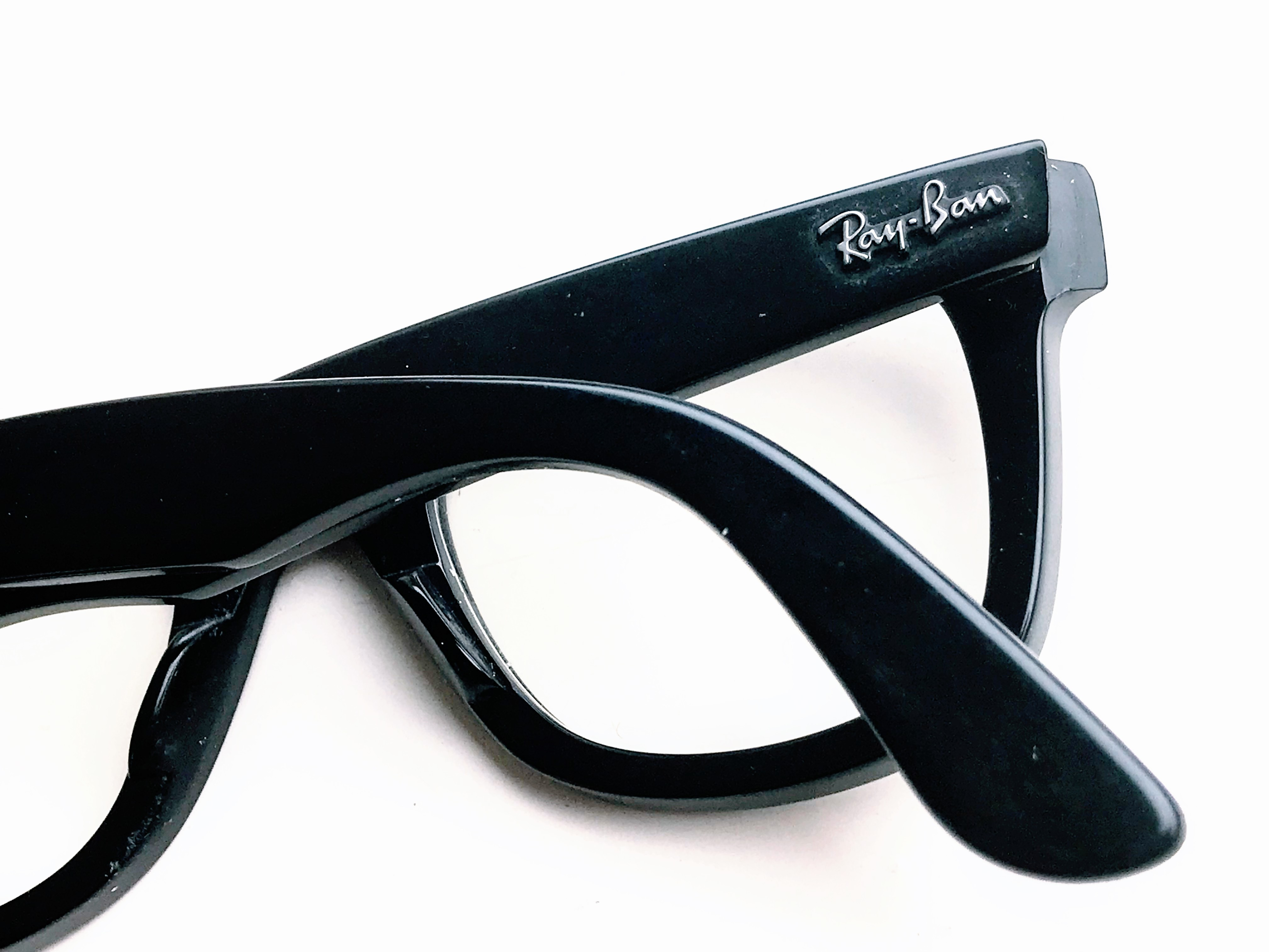 Ray-Ban Classic Wayfarer RB5121 47-22